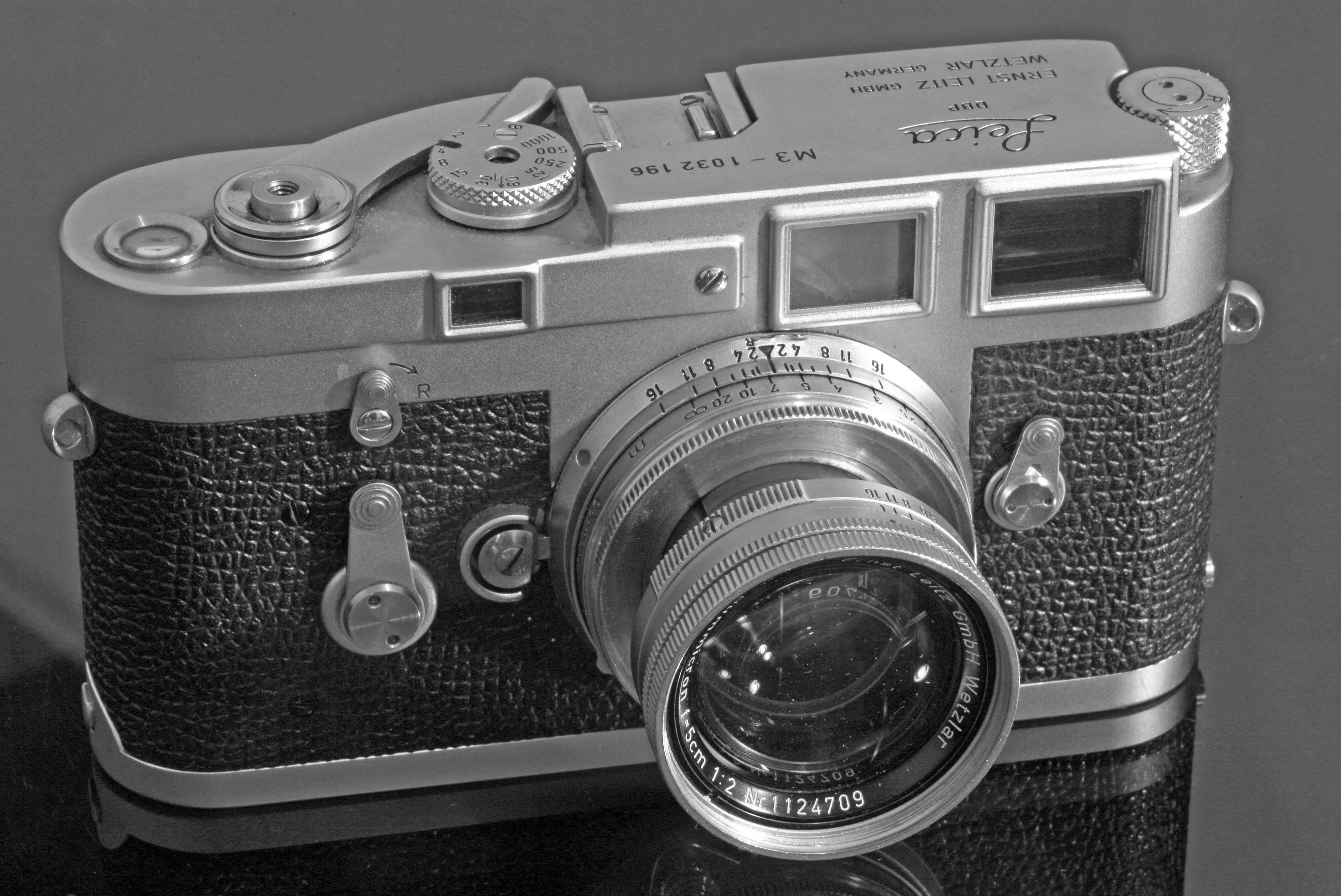 Leica M3 with Summicron 50mm